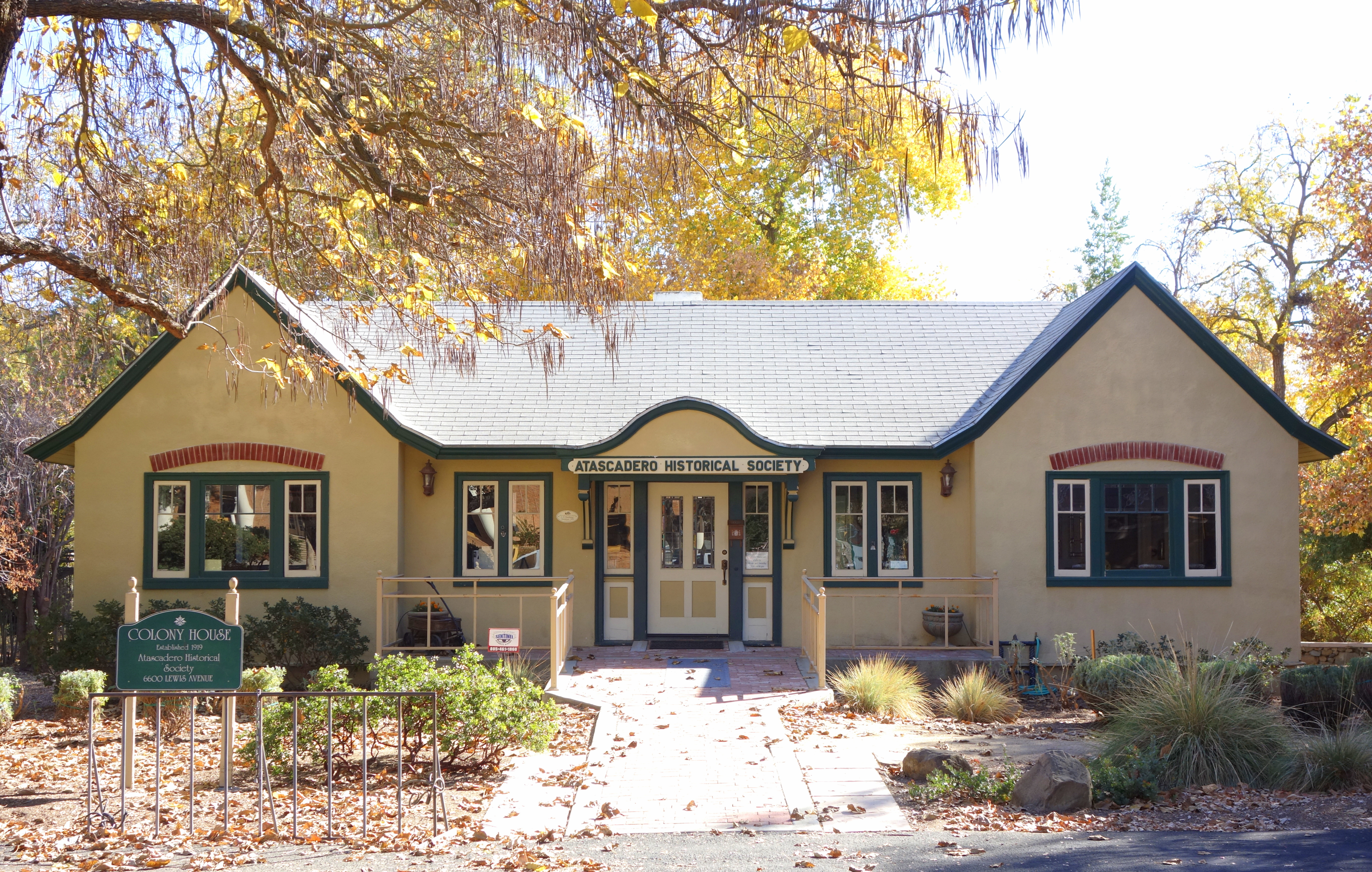 Atascadero, California, USA.